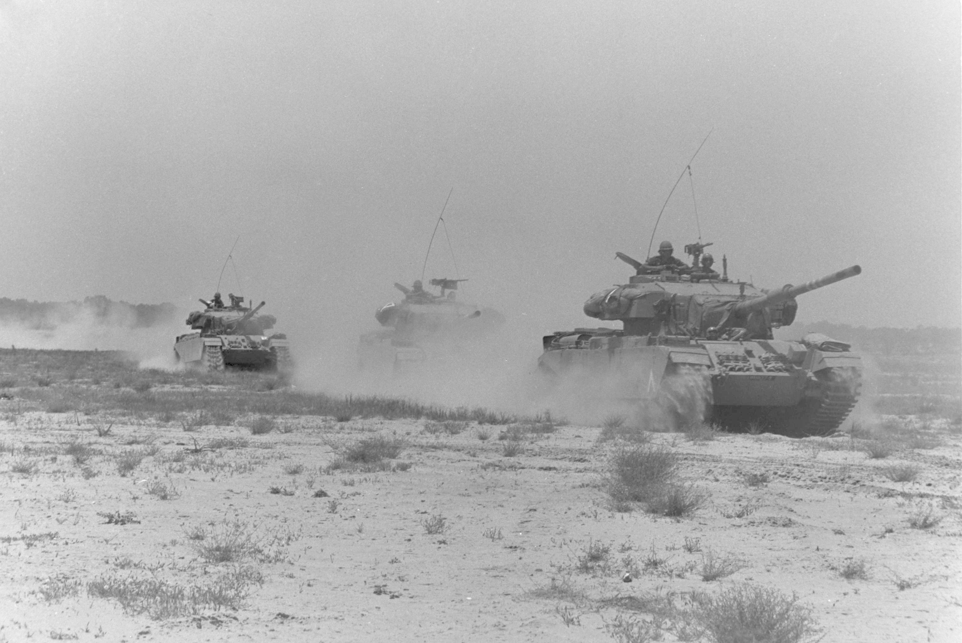 Centurion tanks armed with 105 mm guns move during a stand-by in the Negev.